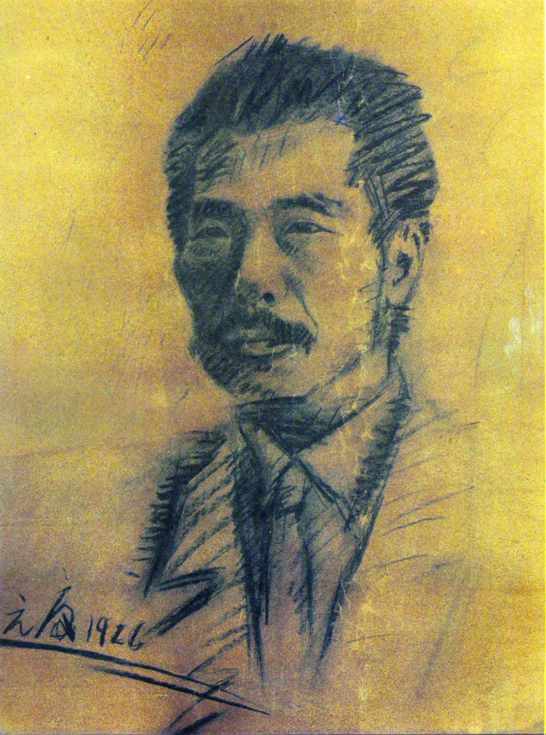 Depicted person: 鲁迅